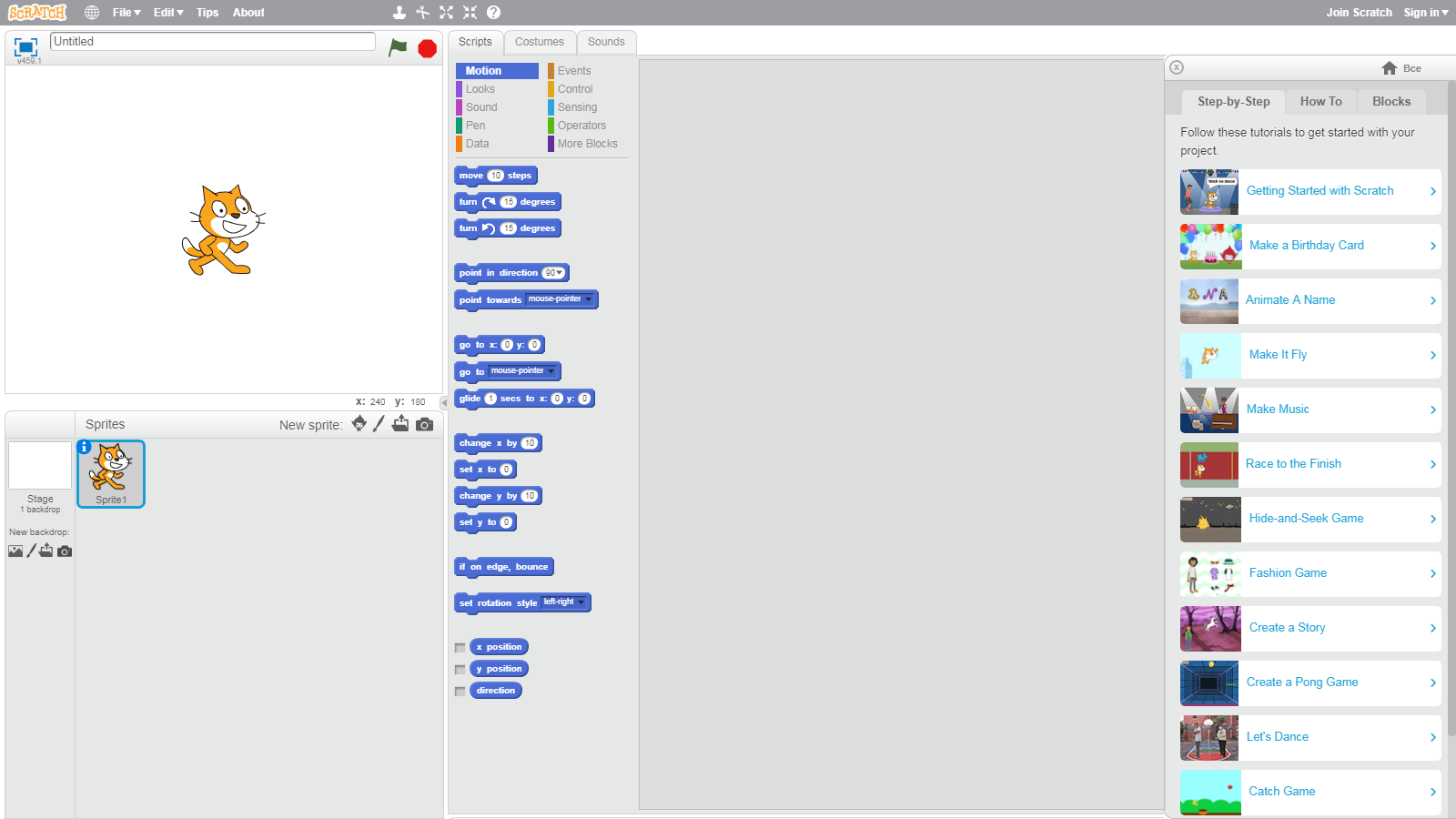 Screenshot of Scratch